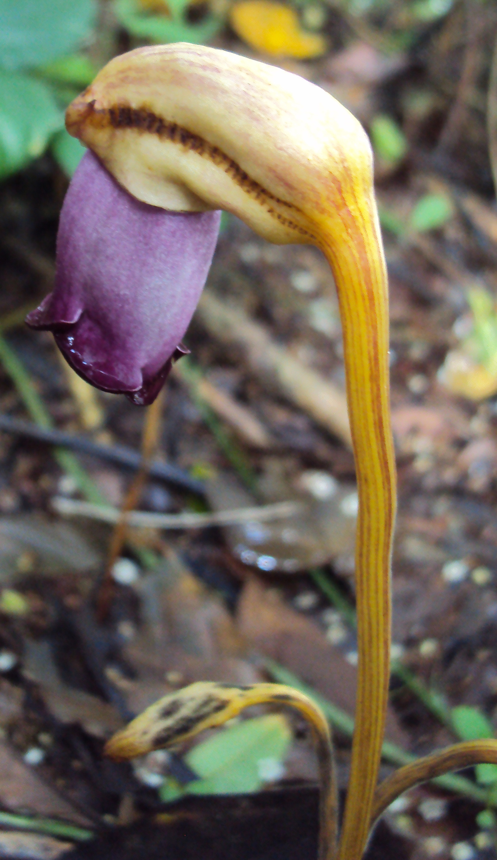 Aeginetia indica